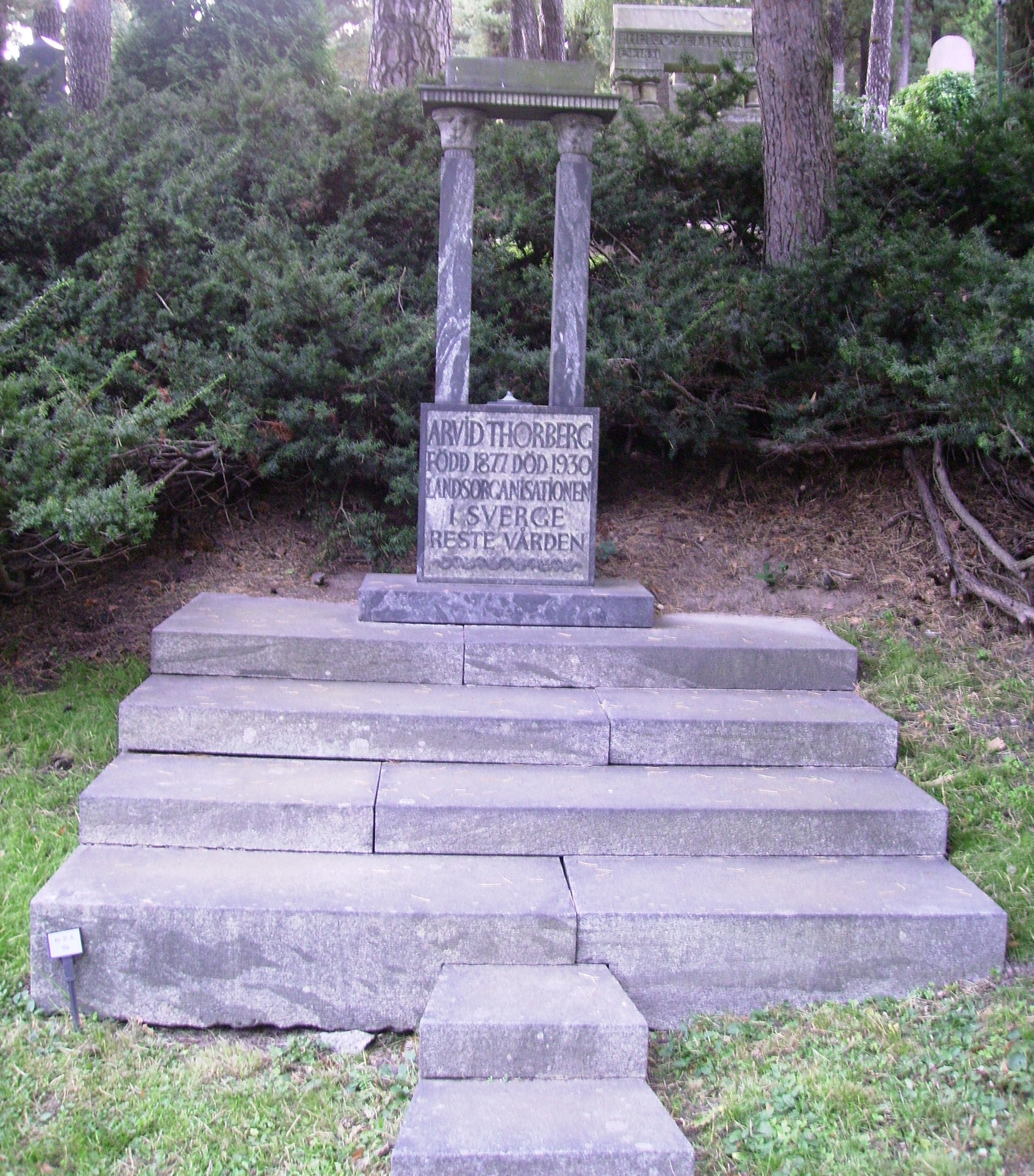 Picture of Arvid Thorberg's grave at Norra begravningsplatsen in Stockholm